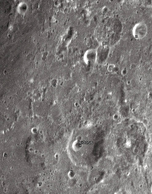 Isidorus lunar crater as seen from Earth with satellite craters labeled